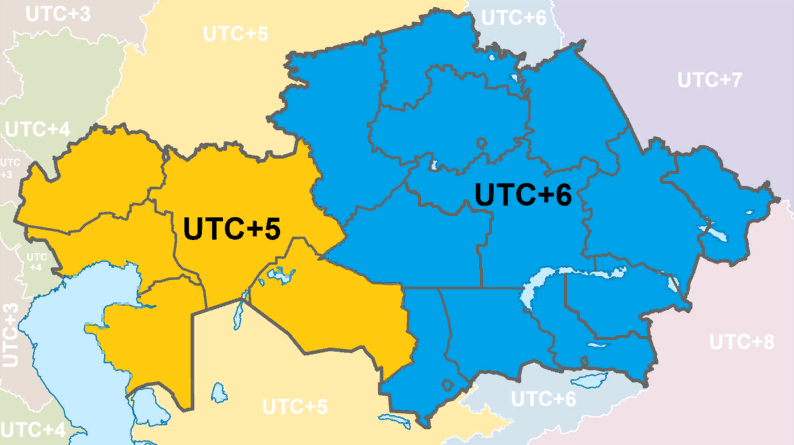 Time zones of Kazakhstan (2019), also were depicted time zones of the adjacent regions